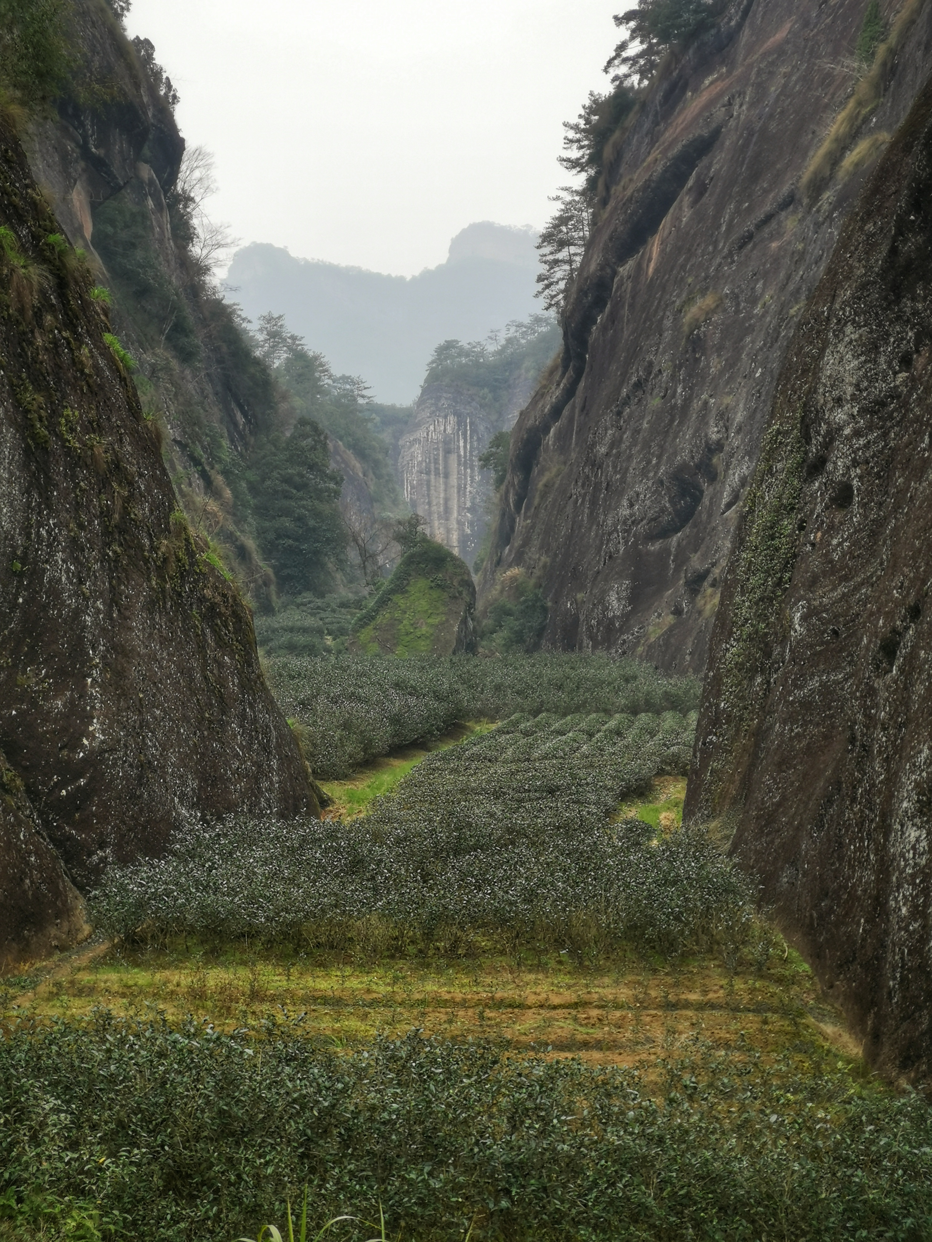 China Wuyishan Tea Plantation